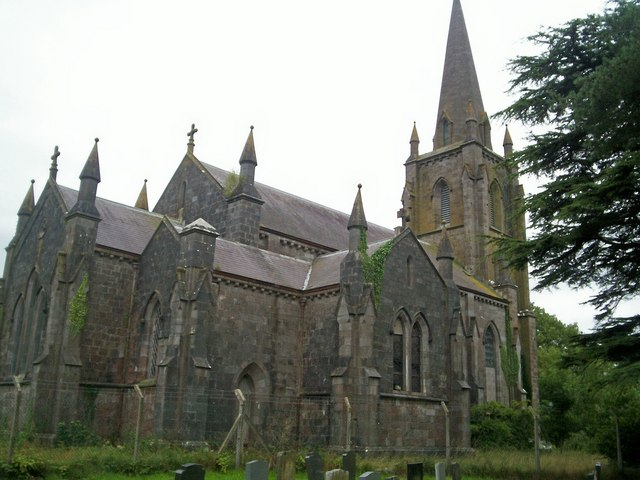 Slebech Church.